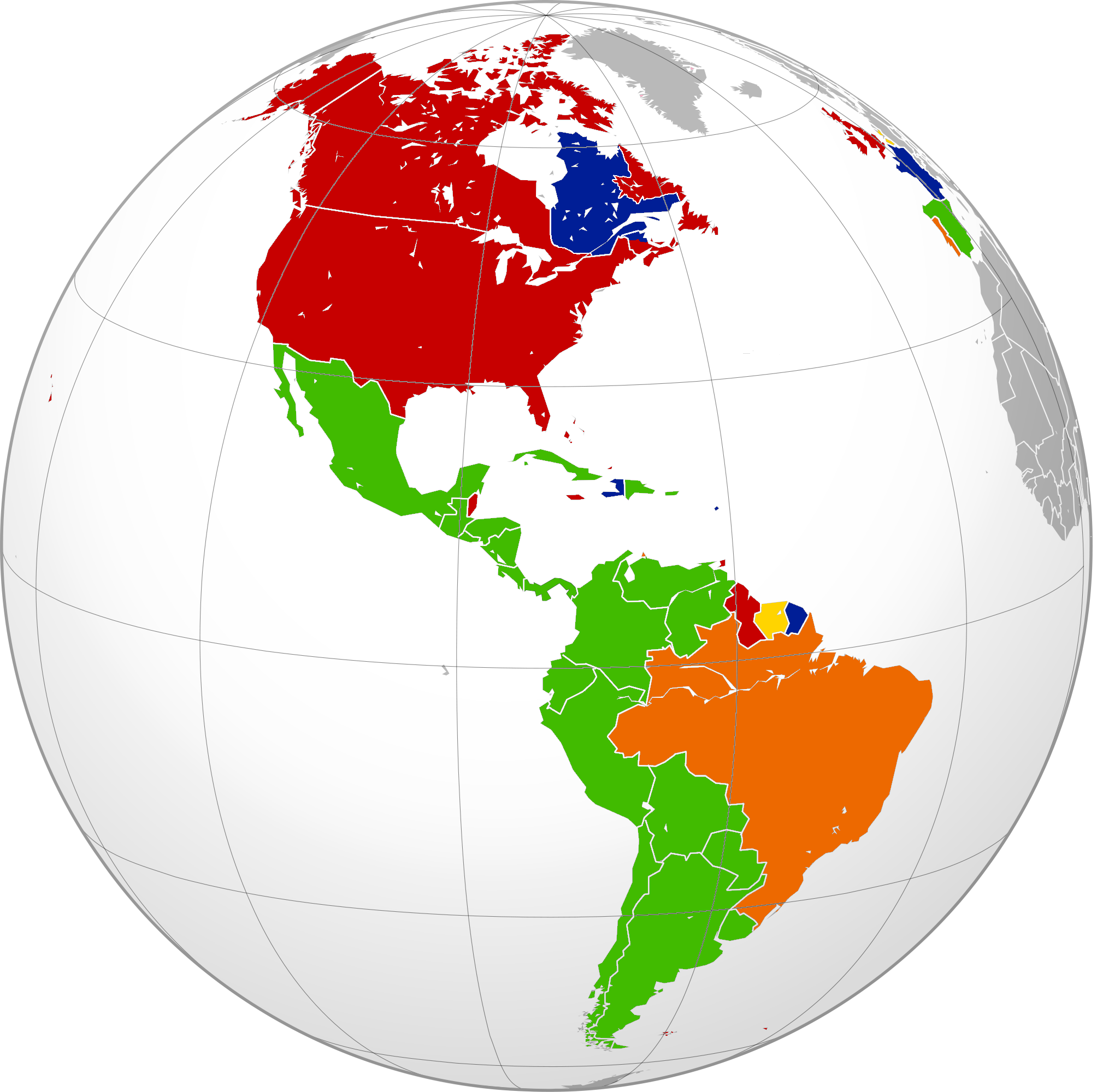 Green - Spanish language; Orange - Portuguese language; Blue - French language; Red - English language; Yellow - Dutch language